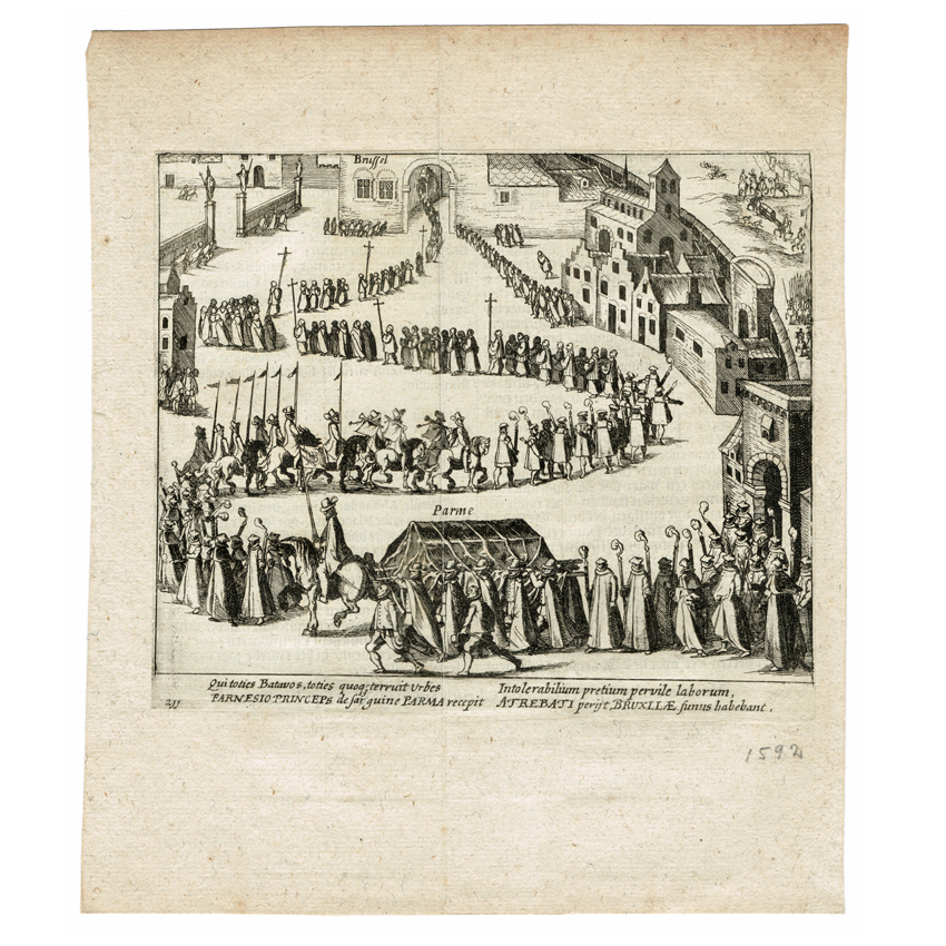 Print from 'The Wars of Nassau' by G. Baudartius, published in Amsterdam by M. Colin de Thovoyon in 1616. Subject: The arrival of the funeral procession of Alexander Farnese, Duke of Parma, Brussels 1592.